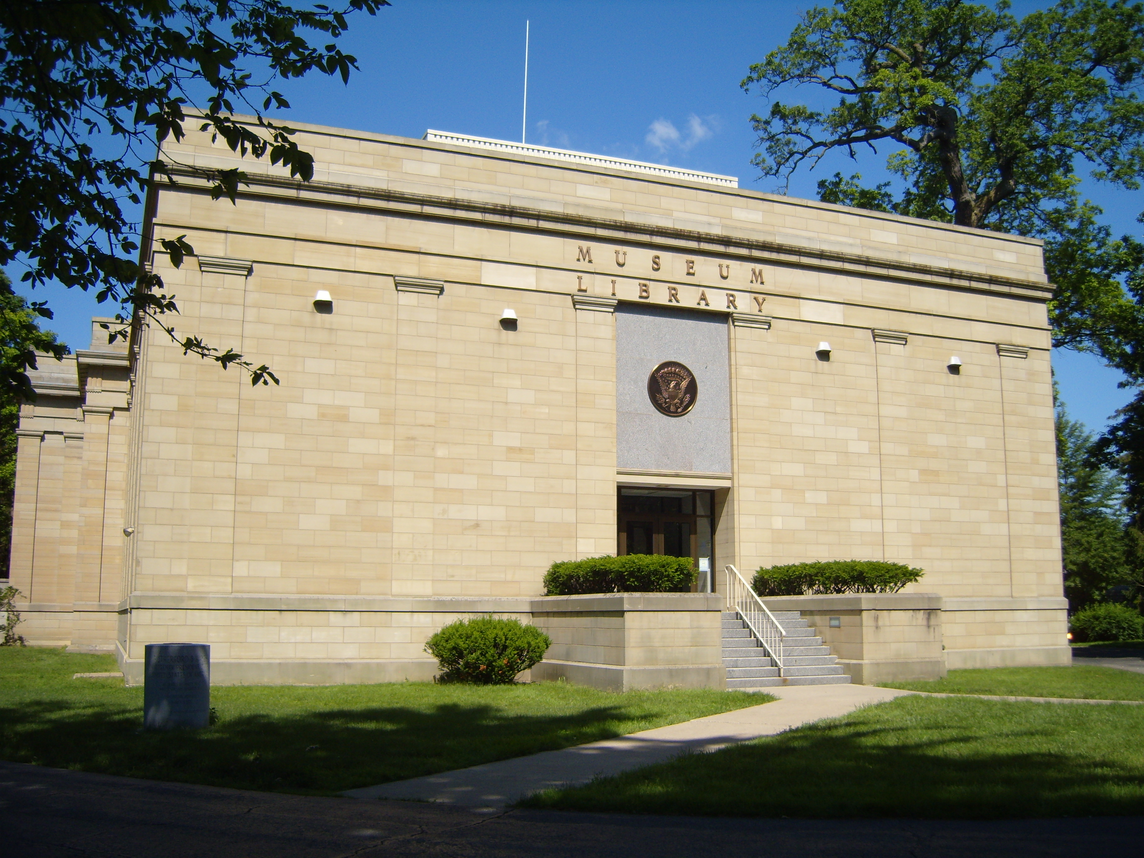 Front of the Rutherford B. Hayes Presidential Library, built in 1916 on the grounds of Spiegel Grove in Fremont, Ohio, United States.